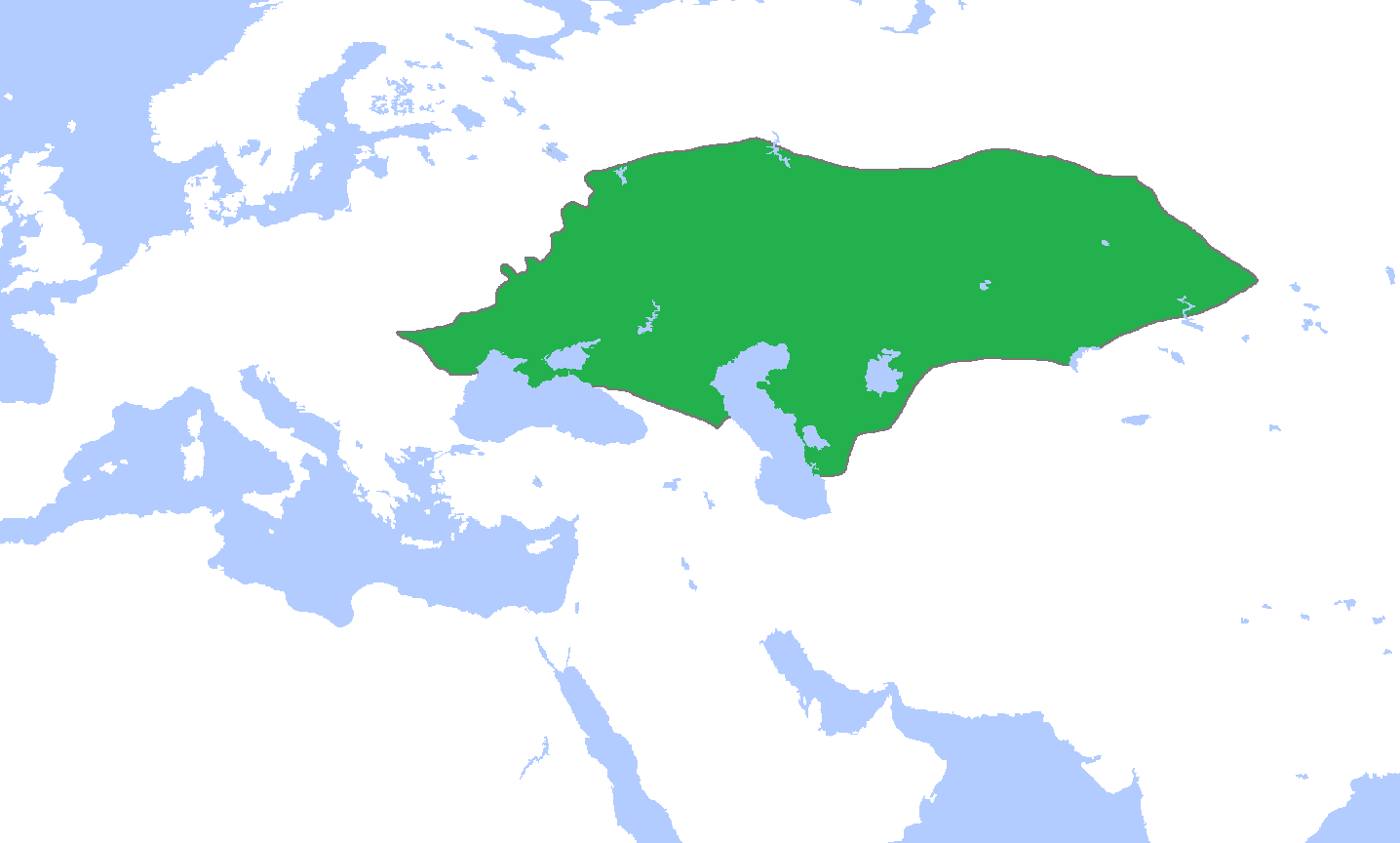 Locator map of the Golden Horde, c. 1300. (Partially based on Atlas of World History (2007) - The World 1200-1300, map)